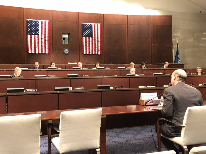 "This morning I spoke to the Joint Select Committee on Budget & Appropriations Process Reform on how Congress can get back to regular order and away from continuing resolutions and omnibus appropriations bills- it starts with the U.S. Senate getting away from their filibuster rule"